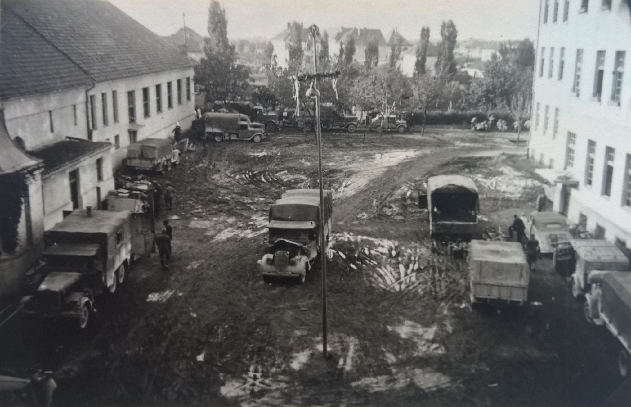 German Wehrmacht-forces in courtyard of Banatia school